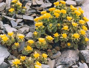 Ranunculus acraeus in New Zealand